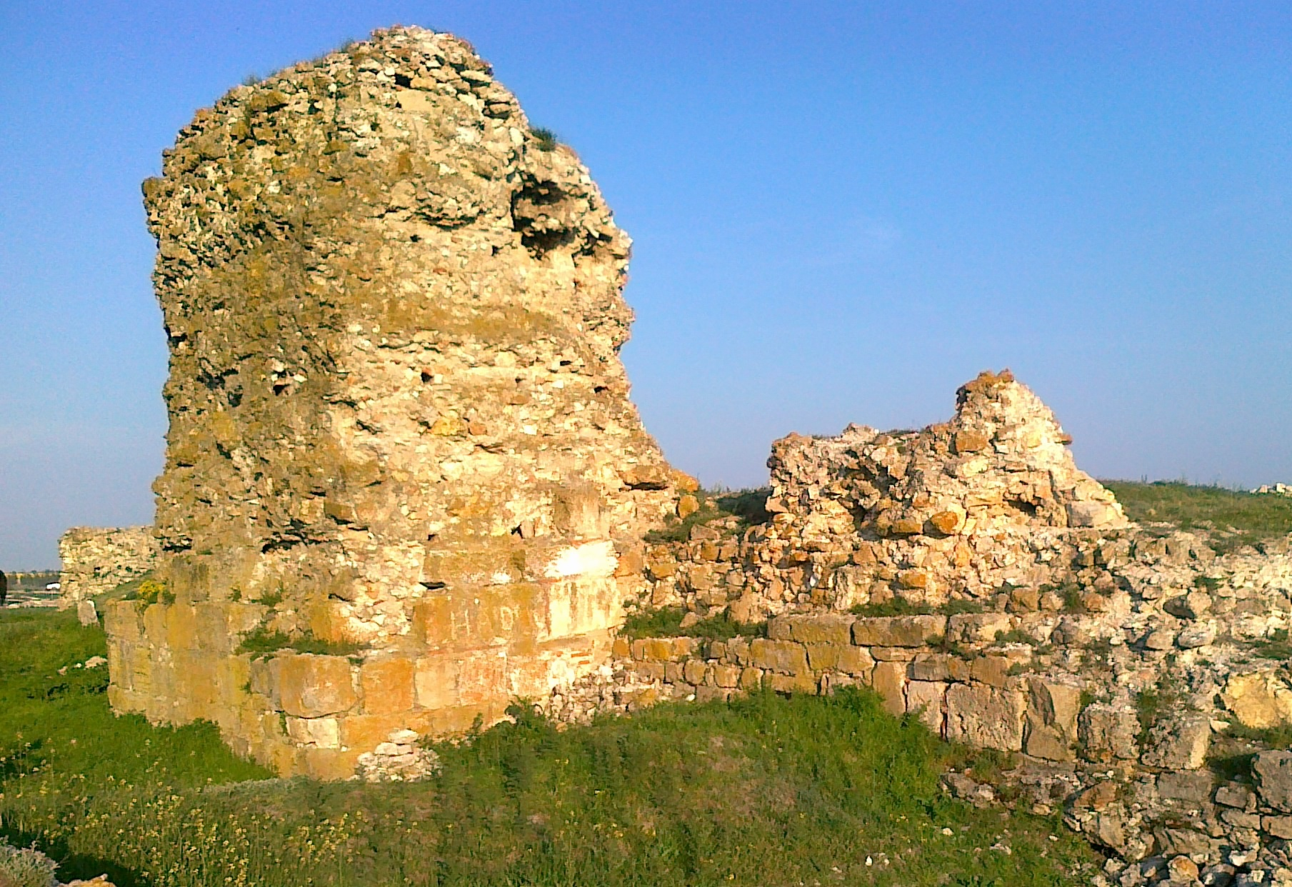 The roman castle of Castrium in the town of Hârşova, Constanţa county, Romania.